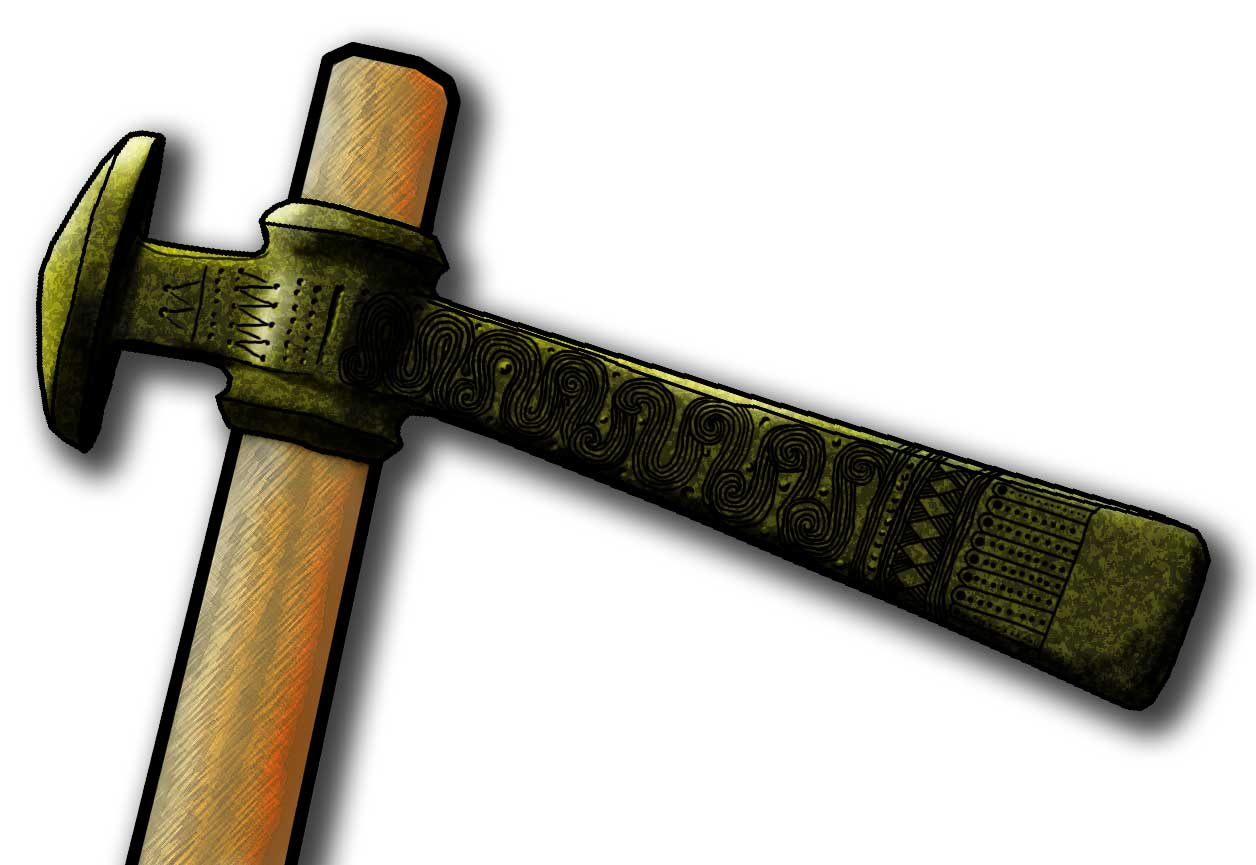 Combat hammer-axe from the Early Bronze Age (1800 BC-1500 BC). It is characteristic from Únětice culture, but sometimes it is called «Nestor type axe» because of mycenaean influence.